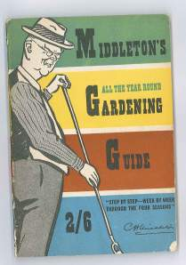 Mr C.H. Middleton, early gardening broadcaster on wartime BBC radio, also wrote many gardening guides to support the Dig For Victory campaign. This 1940s gardening guide (from the World War Zoo gardens collection at Newquay Zoo) has recently been reprinted with different cover by Aurum Press in the UK.